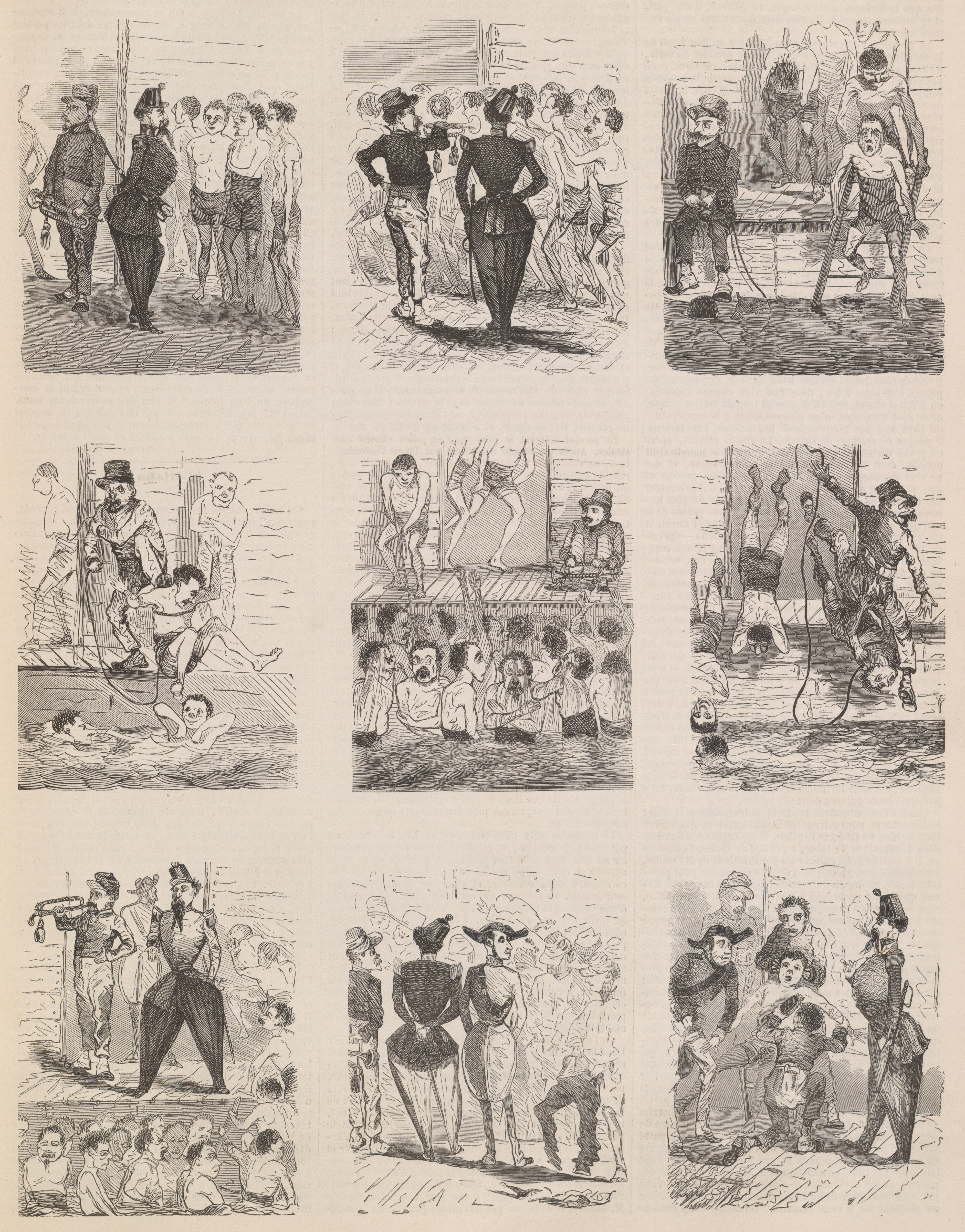 This series of nine sketches pokes fun at the swimming lessons offered to the military at the Pont d'Iéna